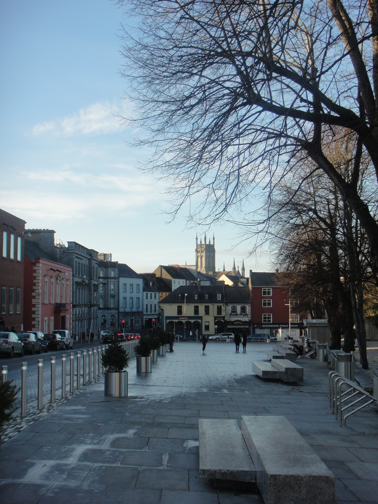 The New Parade in Kilkenny City, viewed from outside the Castle.